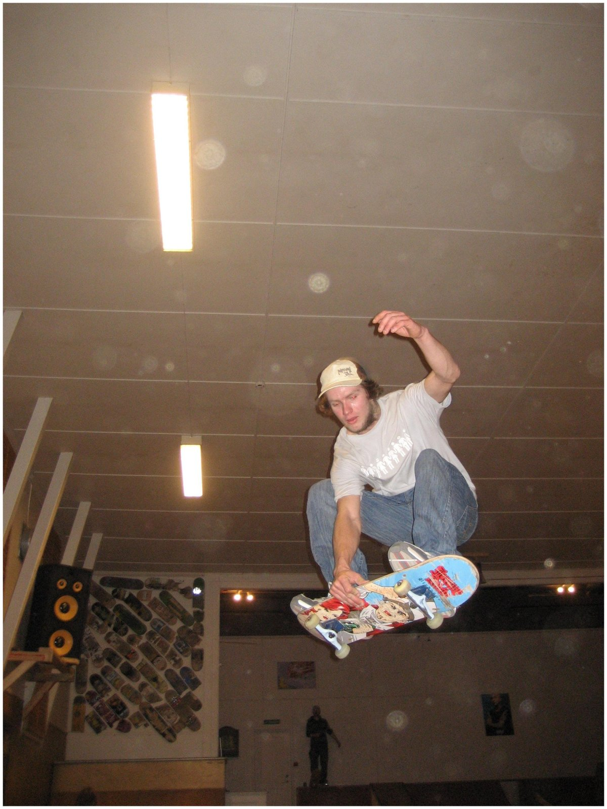 The skateboard aerial trick indy grab